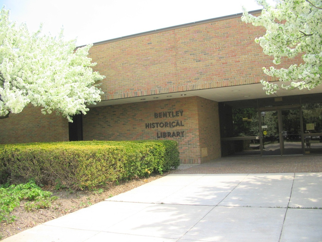 Front view of the Bentley Historical Library.